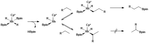 Mechanistic pathways for aliphatic C-H borylation